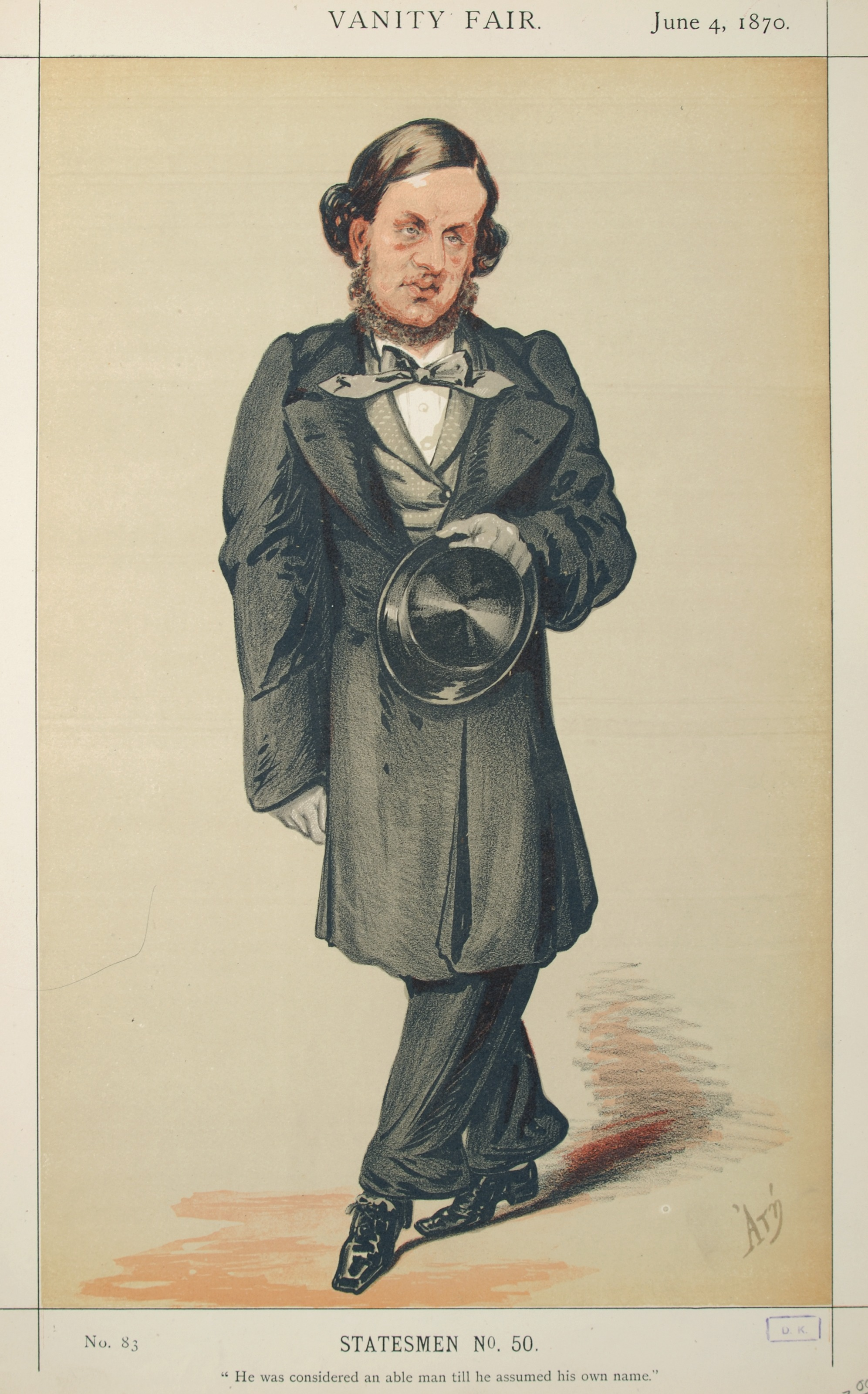 Statesmen No.50: Caricature of Mr William Vernon Harcourt. Caption reads: "He was considered an able man till he assumed his own name."